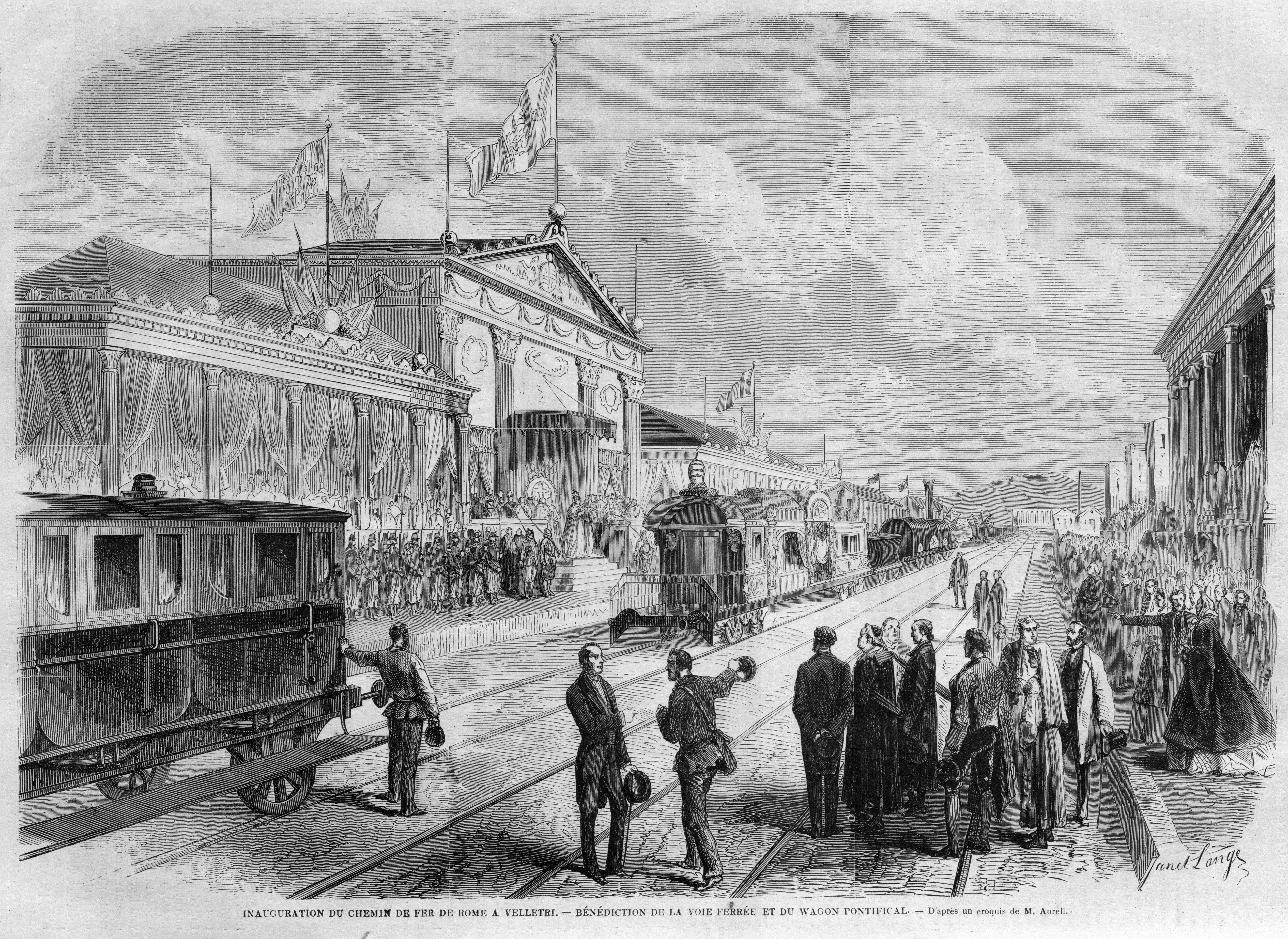 L'Illustration 1862 gravure Inauguration CdF Rome - Velletri, 27 février 1862, bénediction